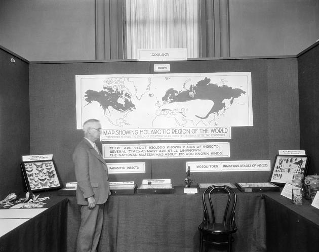 Division of Insects Exhibit at the Conference on the Future of the Smithsonian, February 11, 1927, with J. M. Aldrich, Associate Curator, standing to the left. A large center panel showing a map of the world is labeled, "Map Showing Holarctic Region of the World."